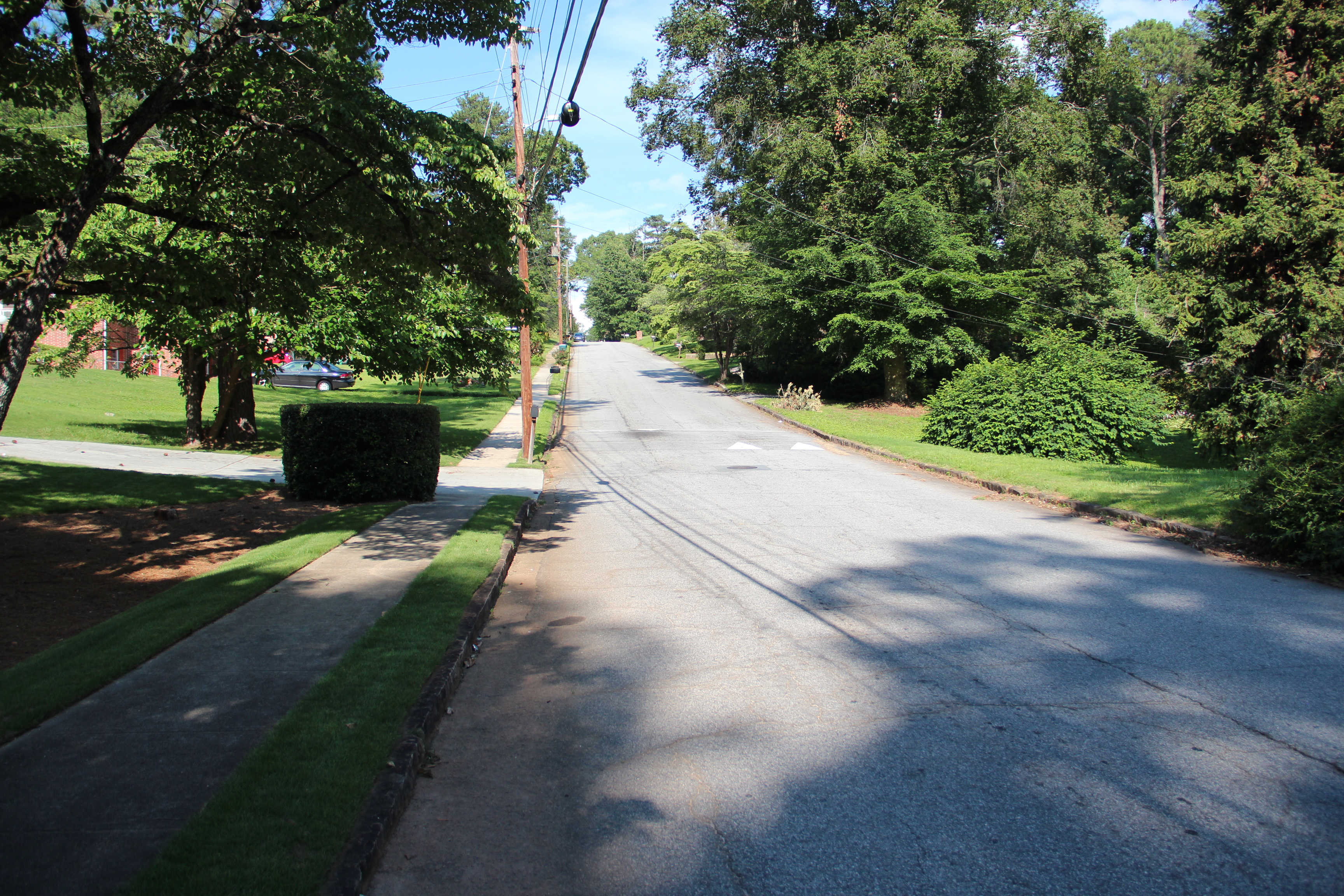 Mary Lou Lane, Gresham Park, GA